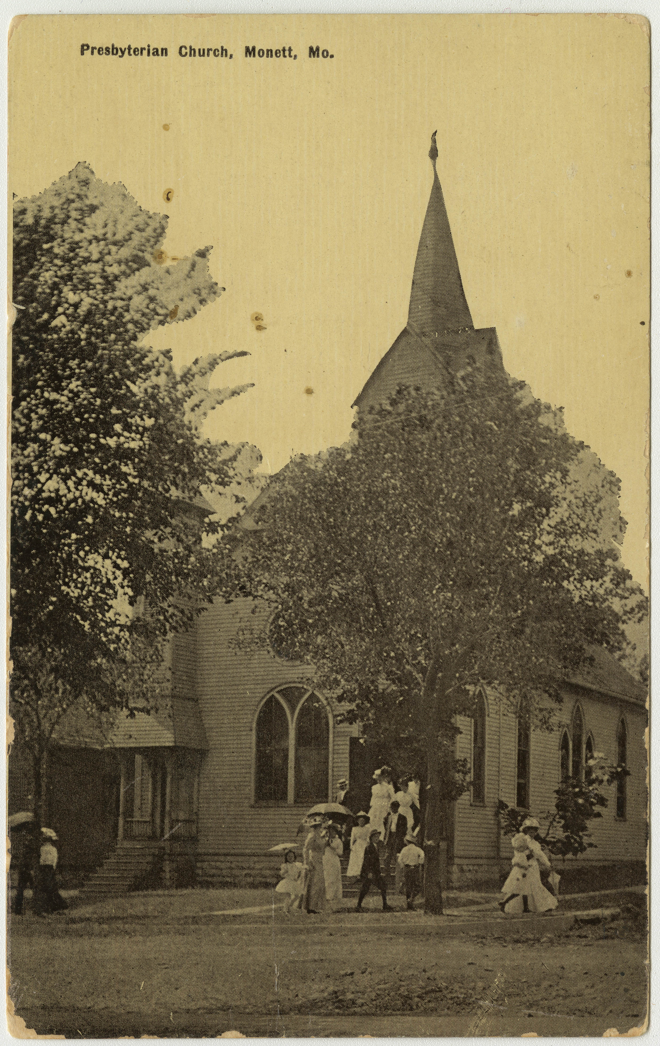 Presbyterian Church in Monett, Missouri from a pre-1923 postcard From RG 428, Postcard Collection, Presbyterian Historical Society, Philadelphia, Pennsylvania.